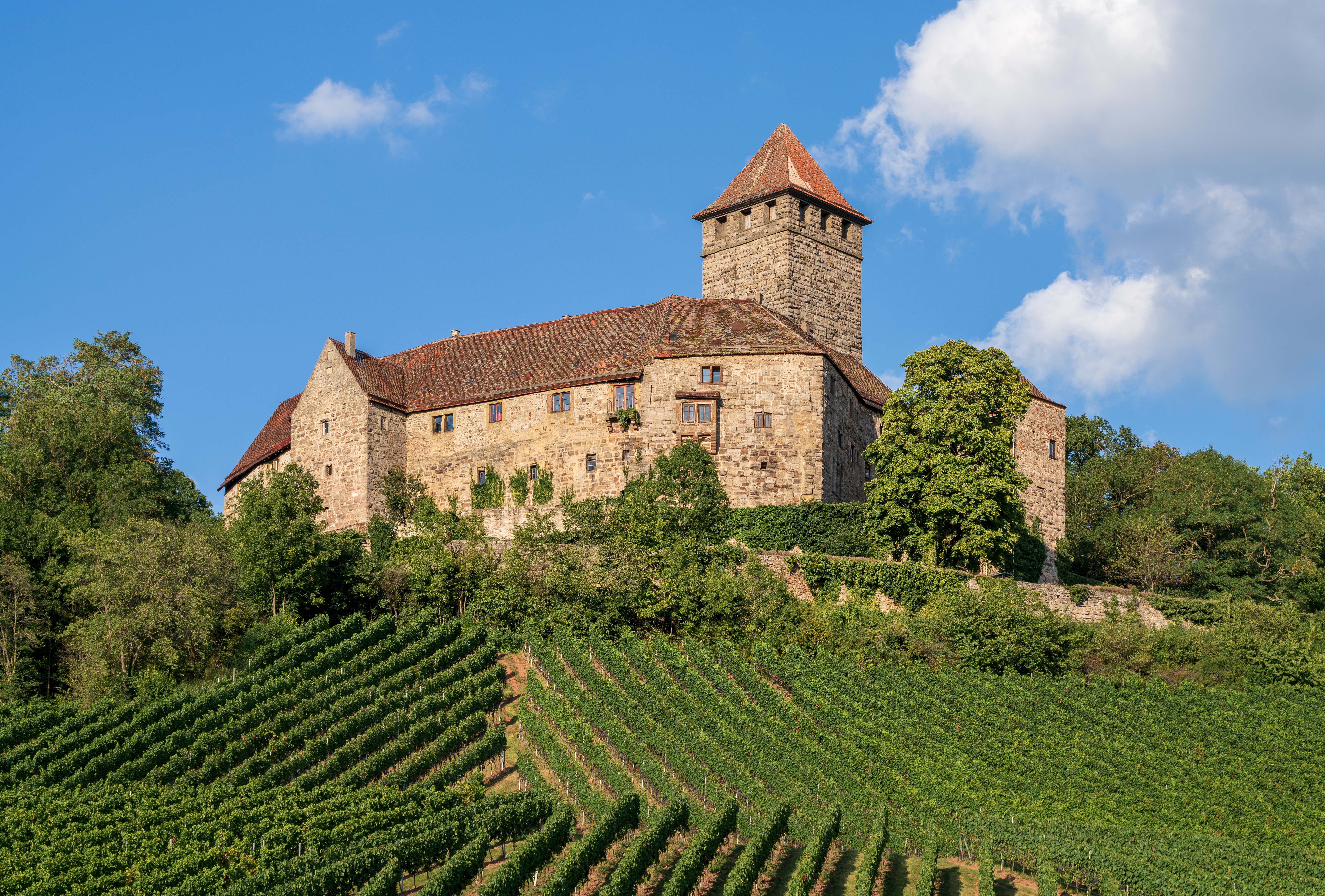 Lichtenberg Castle near Oberstenfeld (Ludwigsburg district, Germany) is one of the best preserved castles from the Staufer period. View from the vineyards from west-southwest.